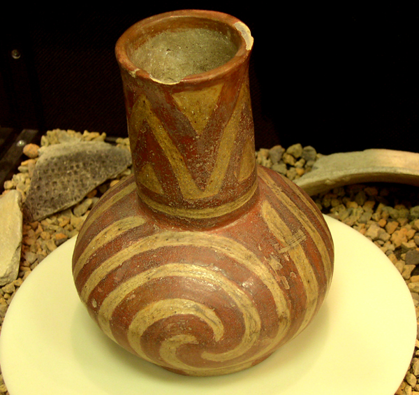 A piece of mortuary pottery from the Parkin Site.